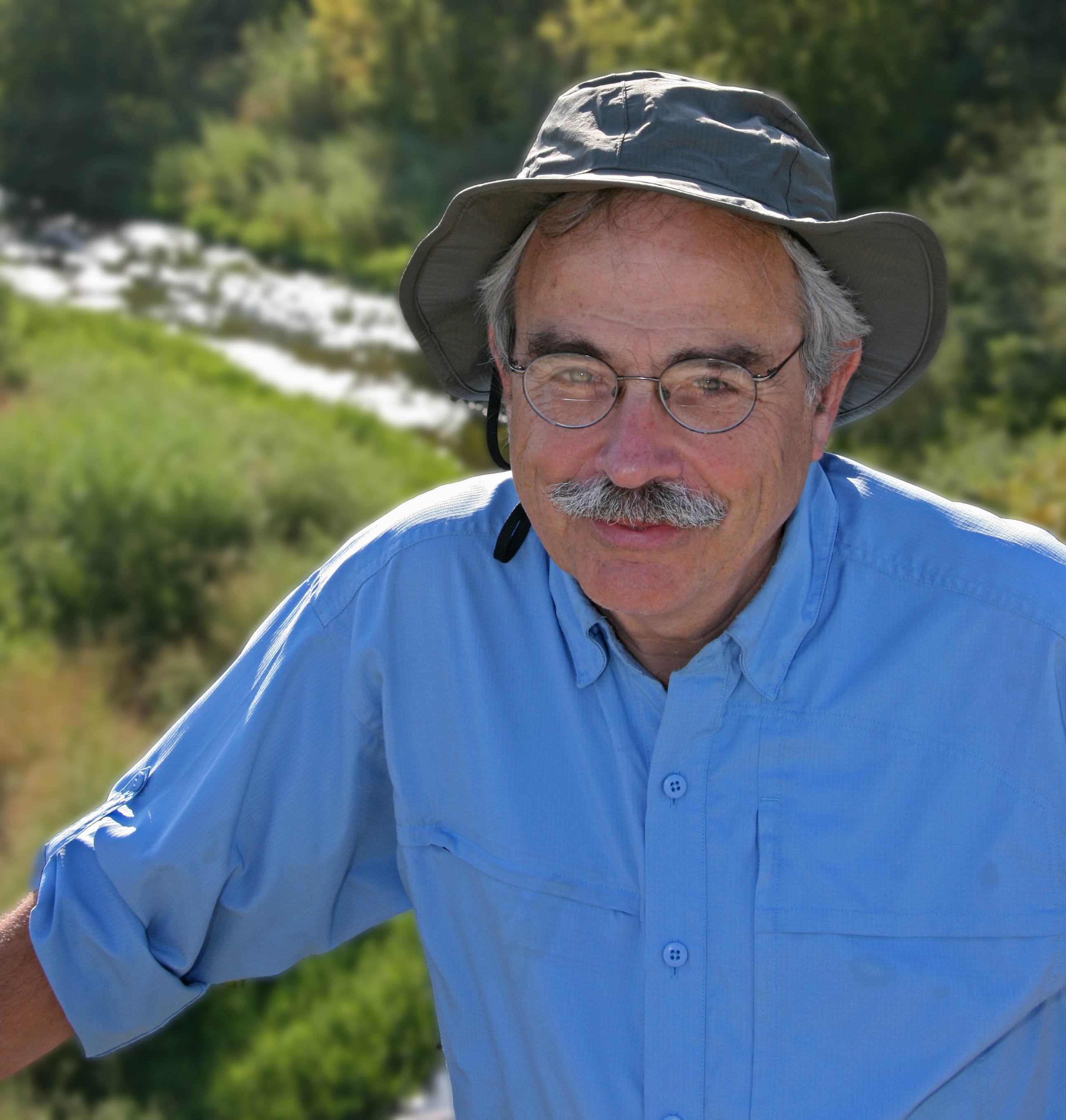 Peter B. Moyle, Distinguished Professor, Emeritus; Department of Wildlife, Fish, and Conservation Biology; Center for Watershed Sciences - University of California-Davis